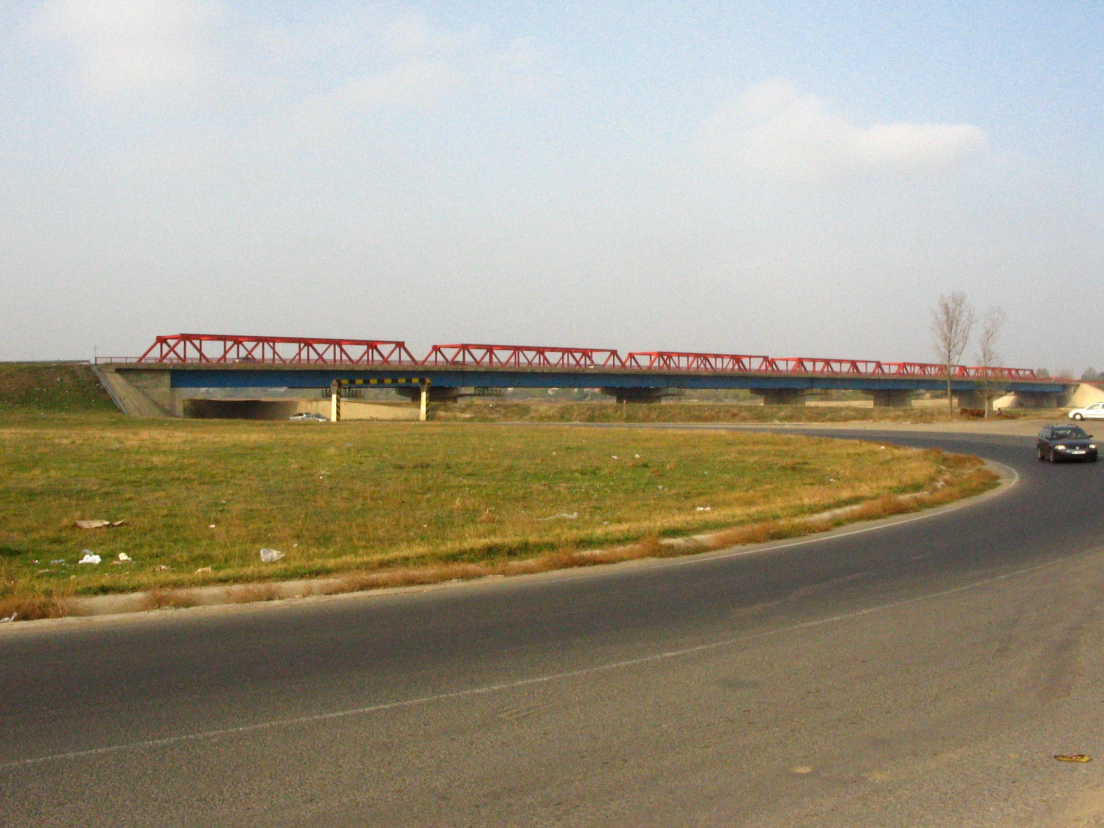 The Mărăcineni Bridge, over the Buzău River, north of Buzău, Romania